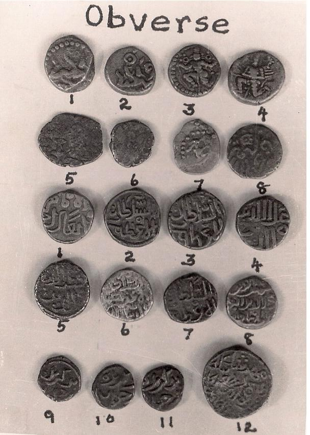 Pandiyan coins